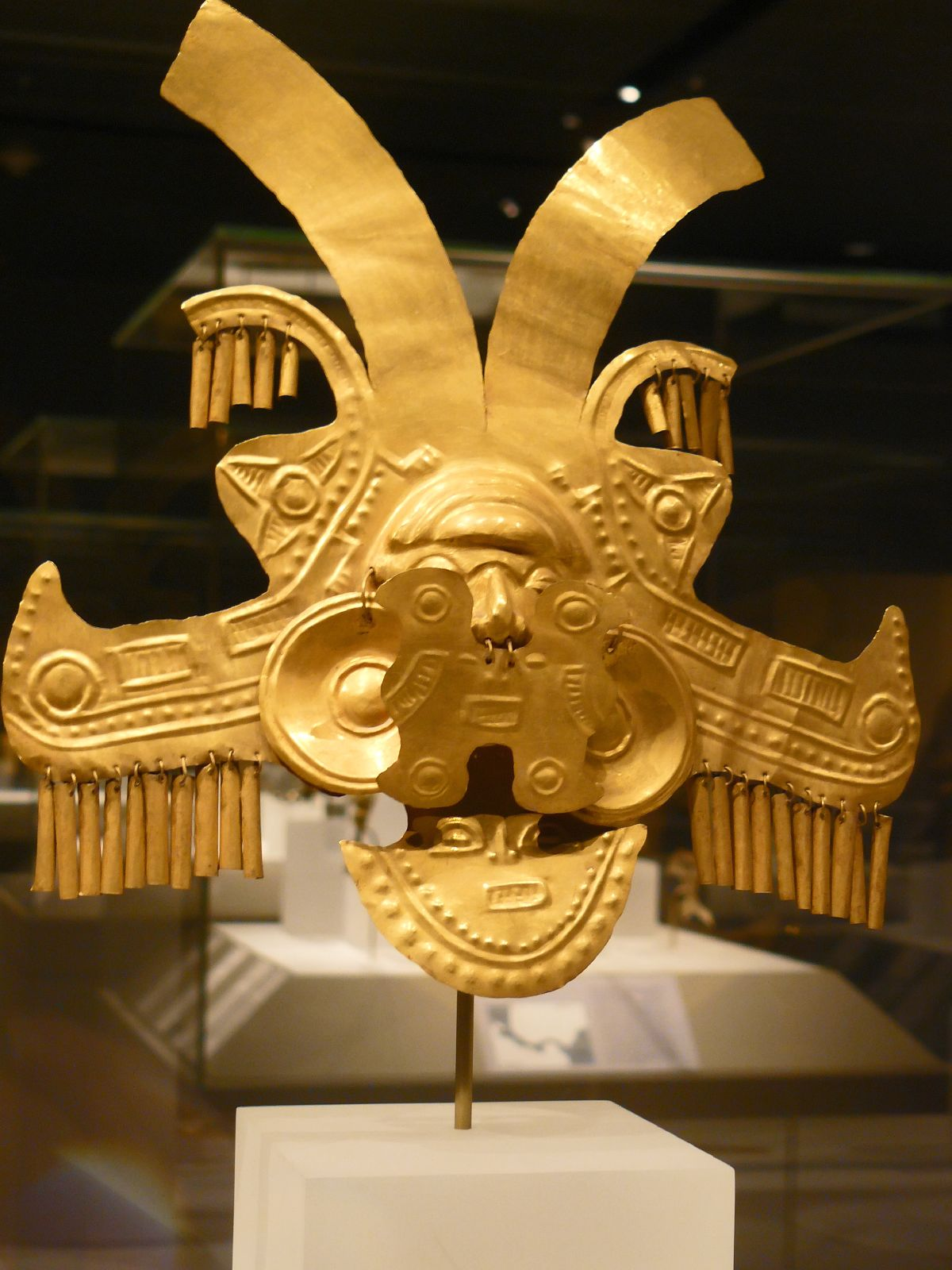 Photographed at the Metropolitan Museum of Art in New York City, New York. Pectoral Yotoco, oro martillado, Region Arqueologica Yotoco, Valle del Cauca, ColombiaHammered Gold Headdress Colombia Yotoco Calima 1st-7th century CE